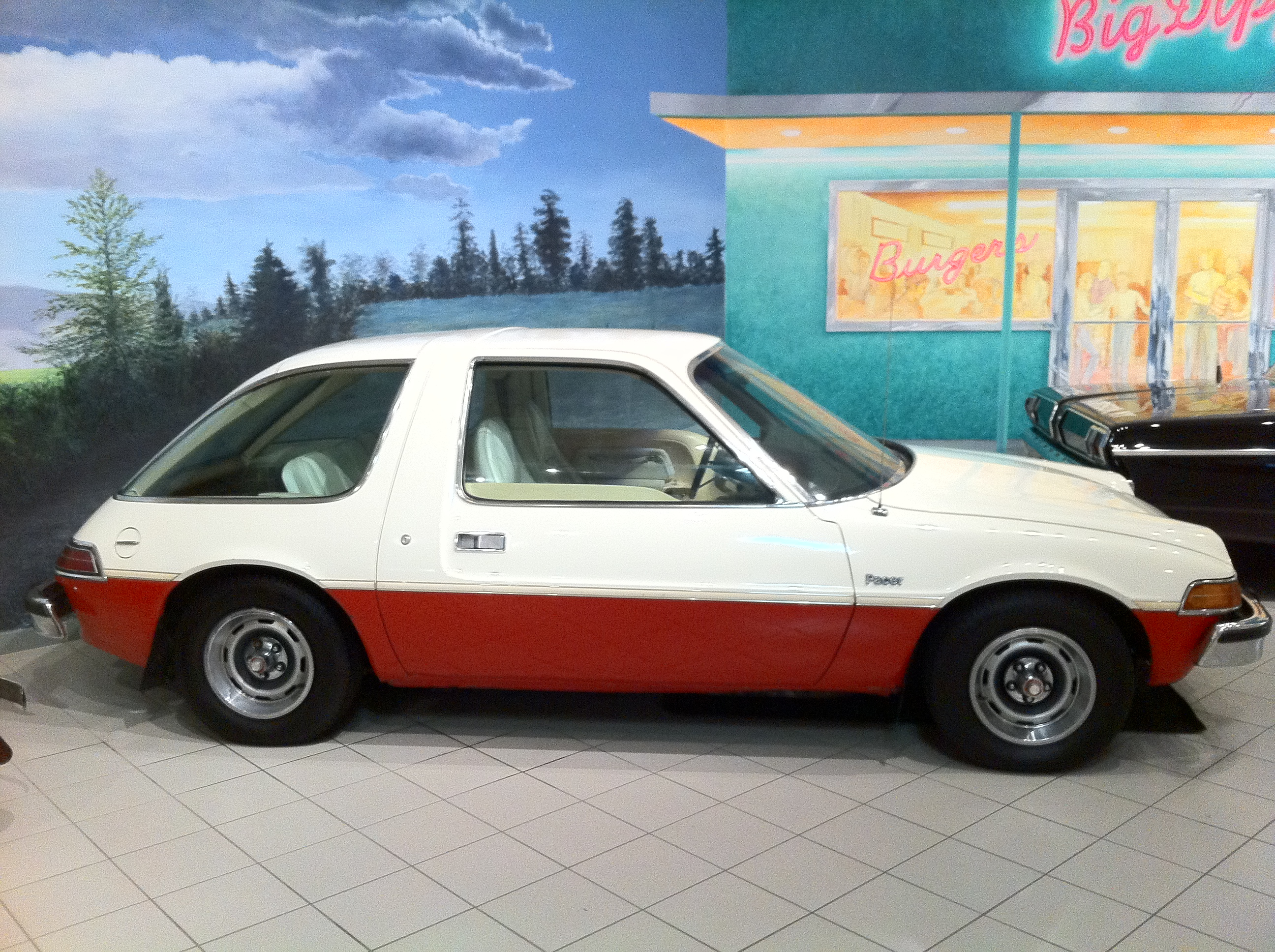 1975 AMC Pacer X coupe, by American Motors Corporation. Right side profile. One of the cars in the permanent collection at the Antique Automobile Club of America Museum, located in Hershey, Pennsylvania. The AACA is premier car club in the world focused on antique cars, trucks, motorcyles, and their history.